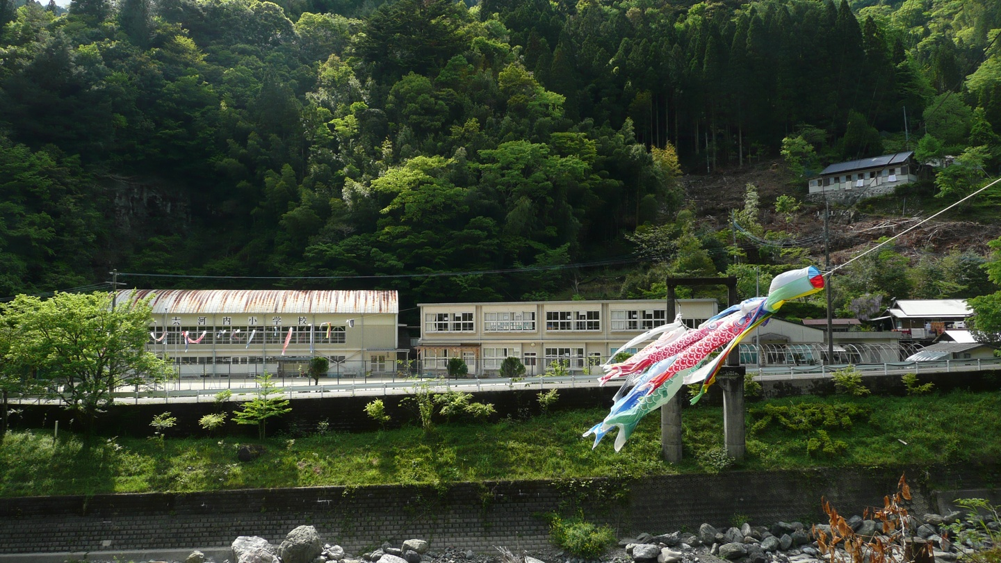 Okawachi Elementary School (Shiiba Village, Miyazaki Prefecture, Japan)